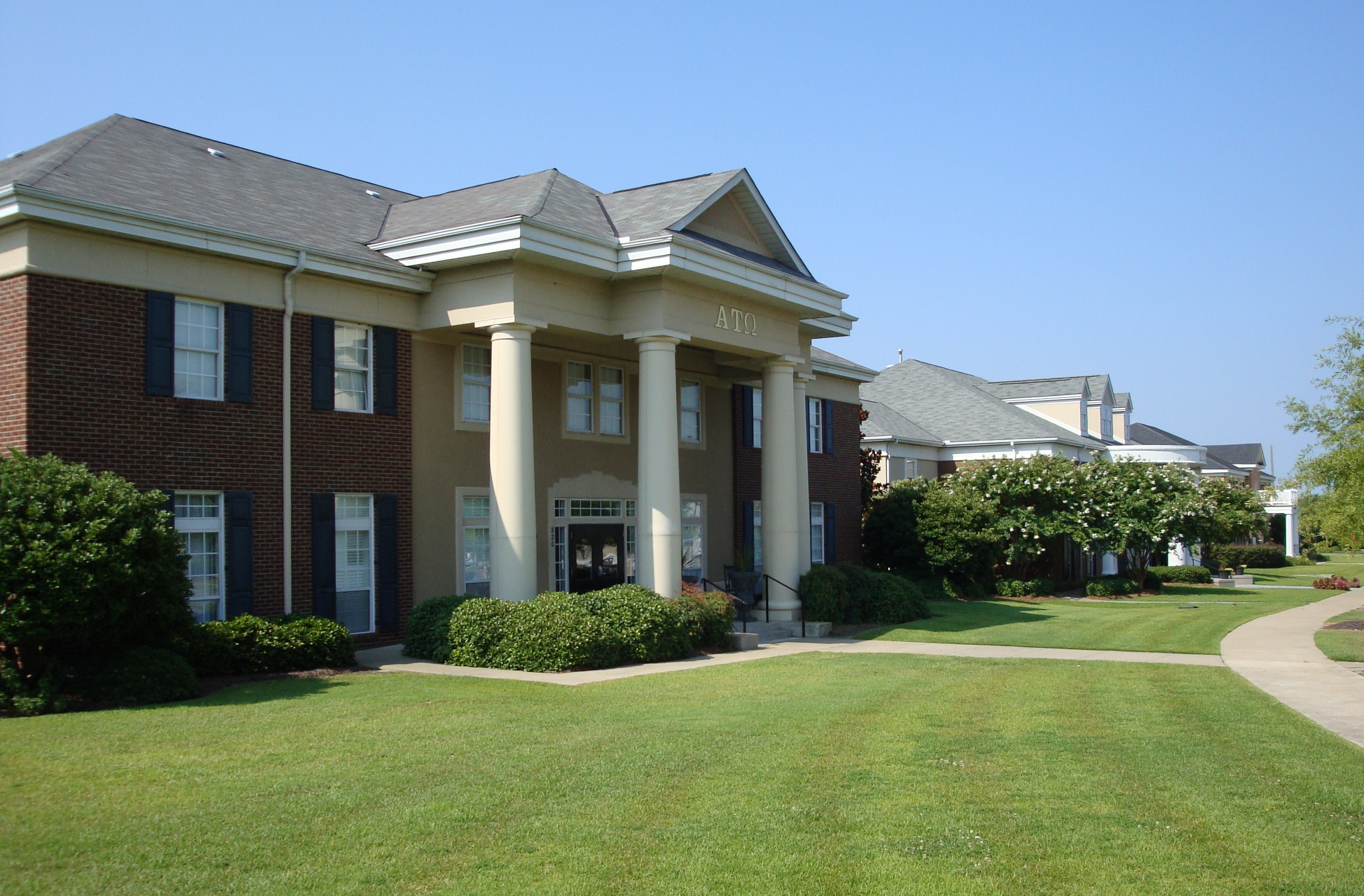 The University of South Carolina Greek Village is the home of 20 sorority and fraternity houses.